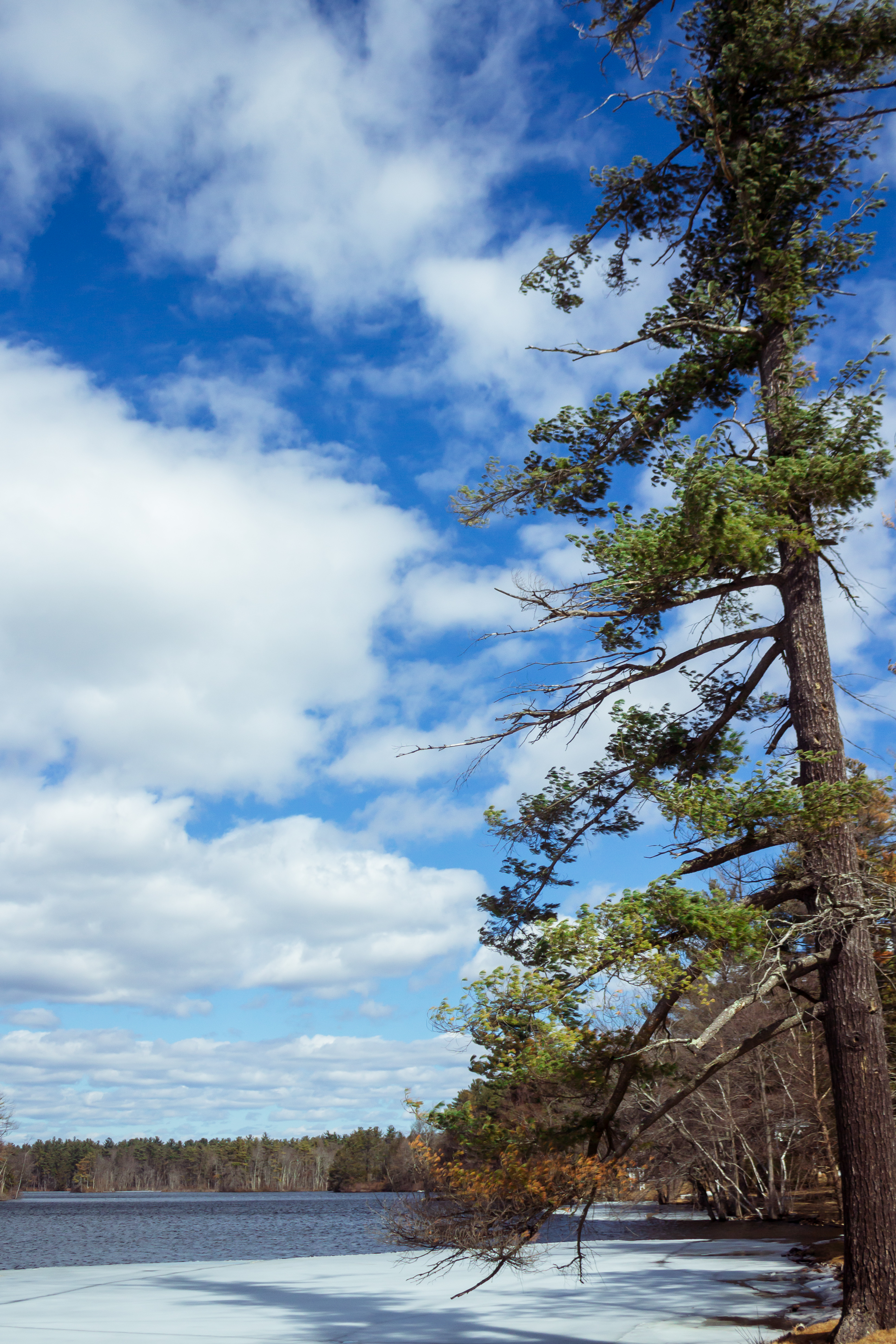 A winter view of Haggetts Pond in Andover, Massachusetts. The pond is very much off the beaten track.